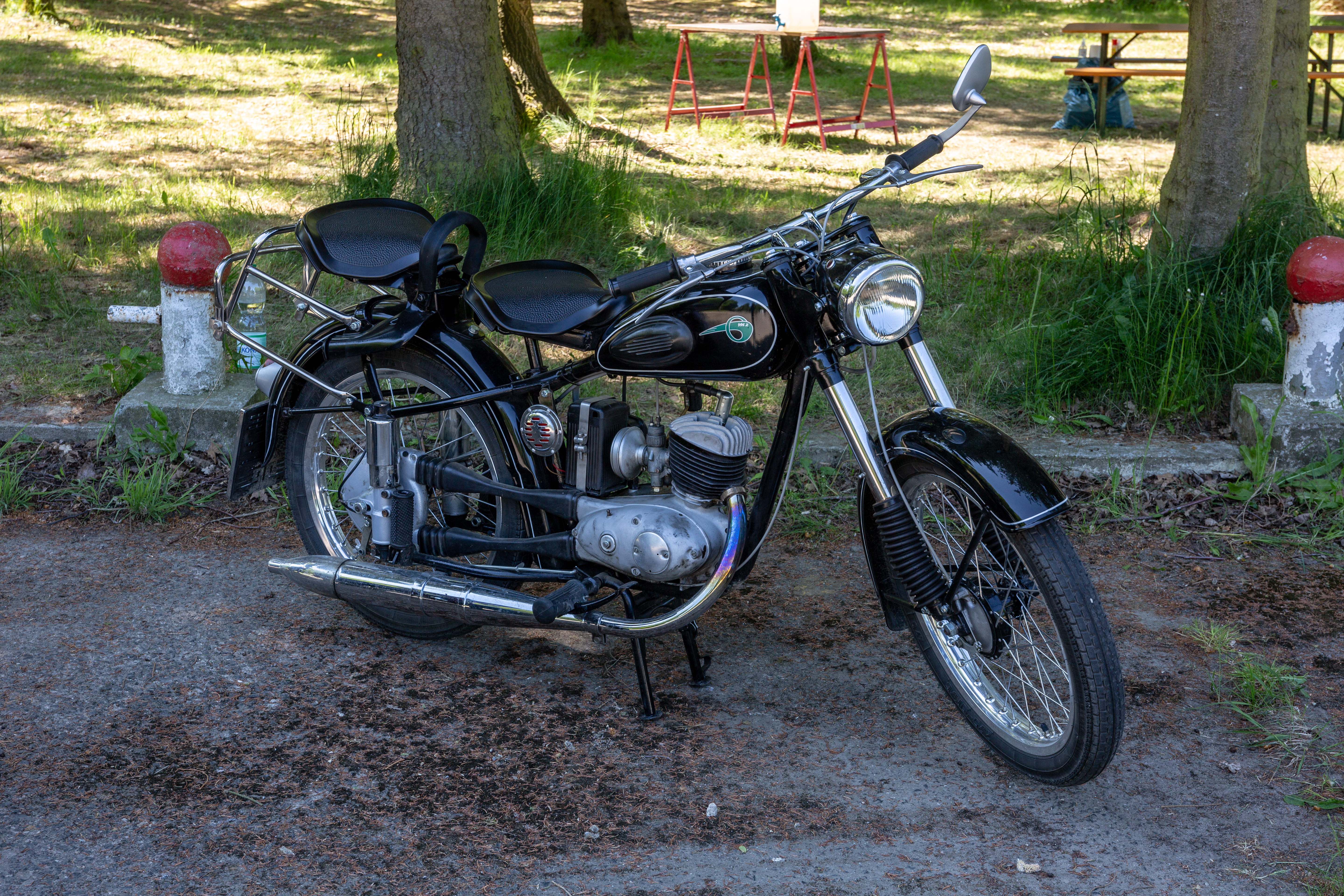 MZ RT 125, Pfingsttreffen Pütnitz 2018